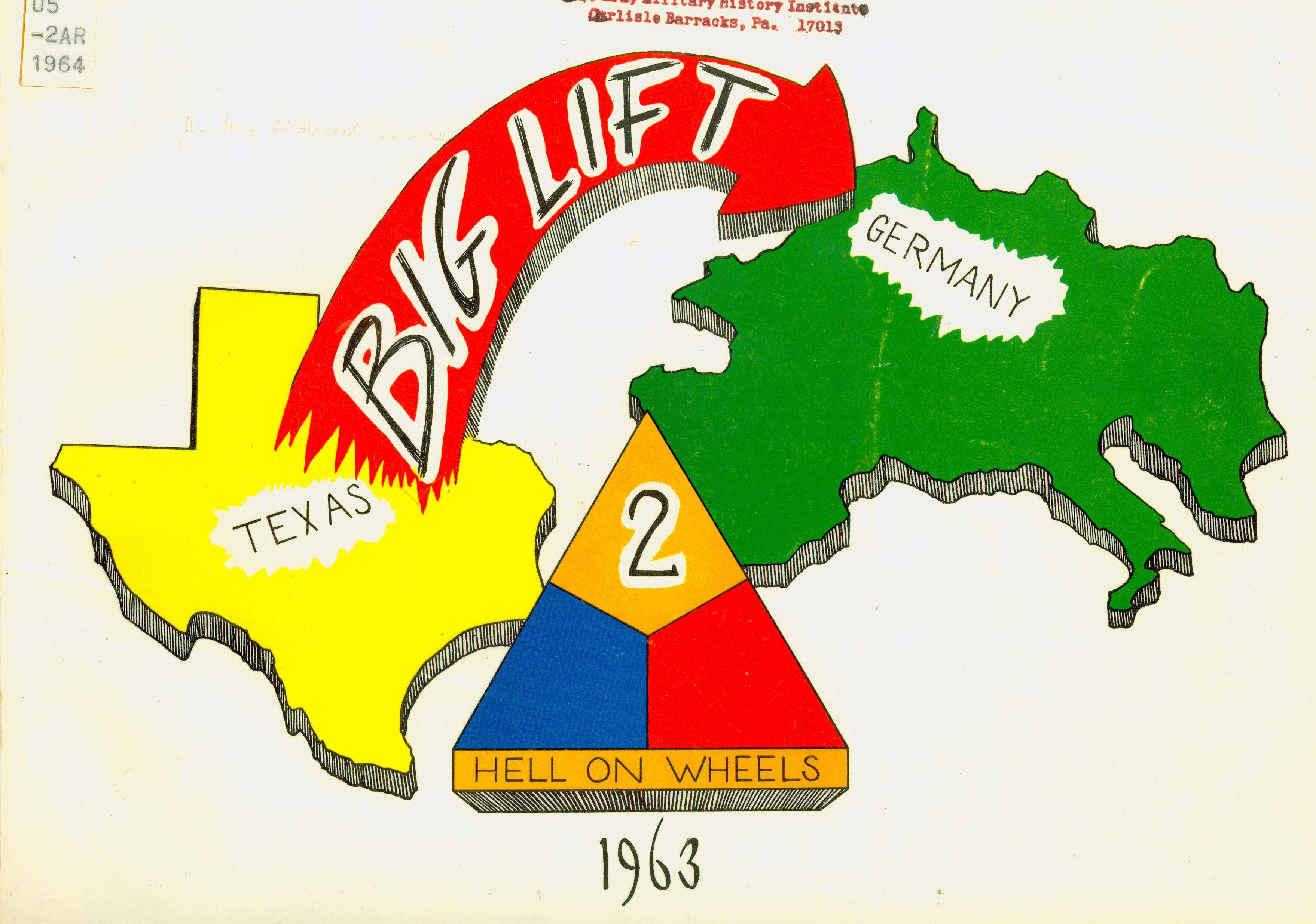 "One Big Lift: This map illustrates the enormous challenge involved in moving a U.S. Army Armored Division from the United States to Europe in the event of hostilities occurring during the Cold War era. The image comes from the cover of a unit history published by the 2nd Armored Division in 1963." (Text by U.S. Army)